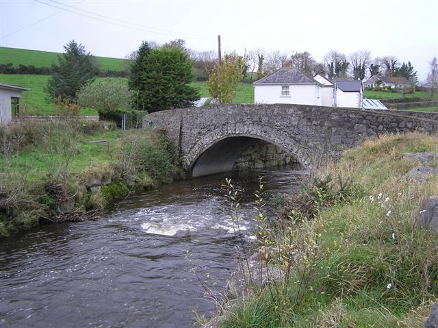 Bridge at Callan River Looking northwards.